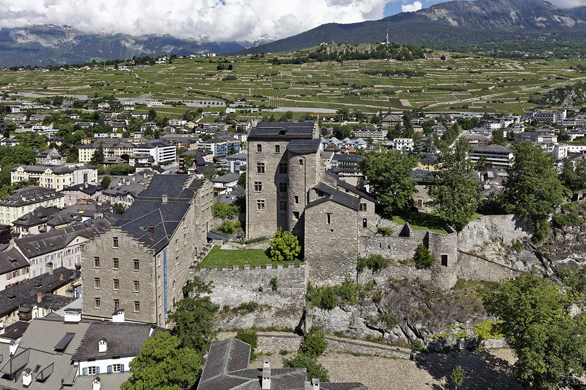 Le Vidomnat et la Majorie, les deux châteaux abritant le Musée d'art du Valais. Photographie par Michel Martinez